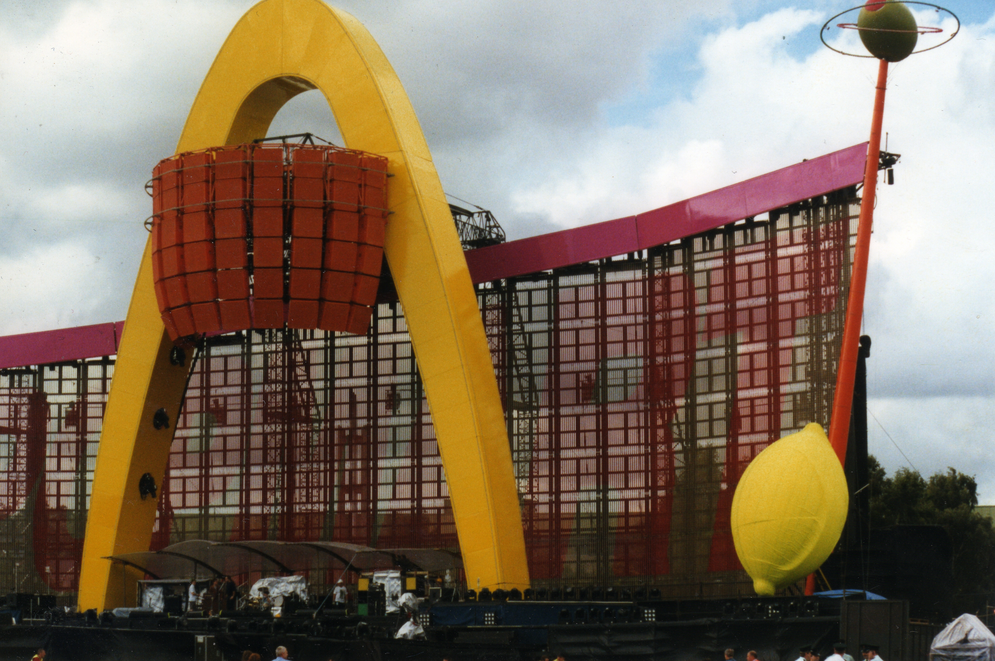 U2 PopMart Tour, Botanic Gardens, Belfast, Northern Ireland, August 1997